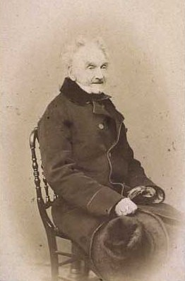 Johan Ludewig Gebhard Lund (primarily known as J.L. Lund) (1777-1867), Danish painter